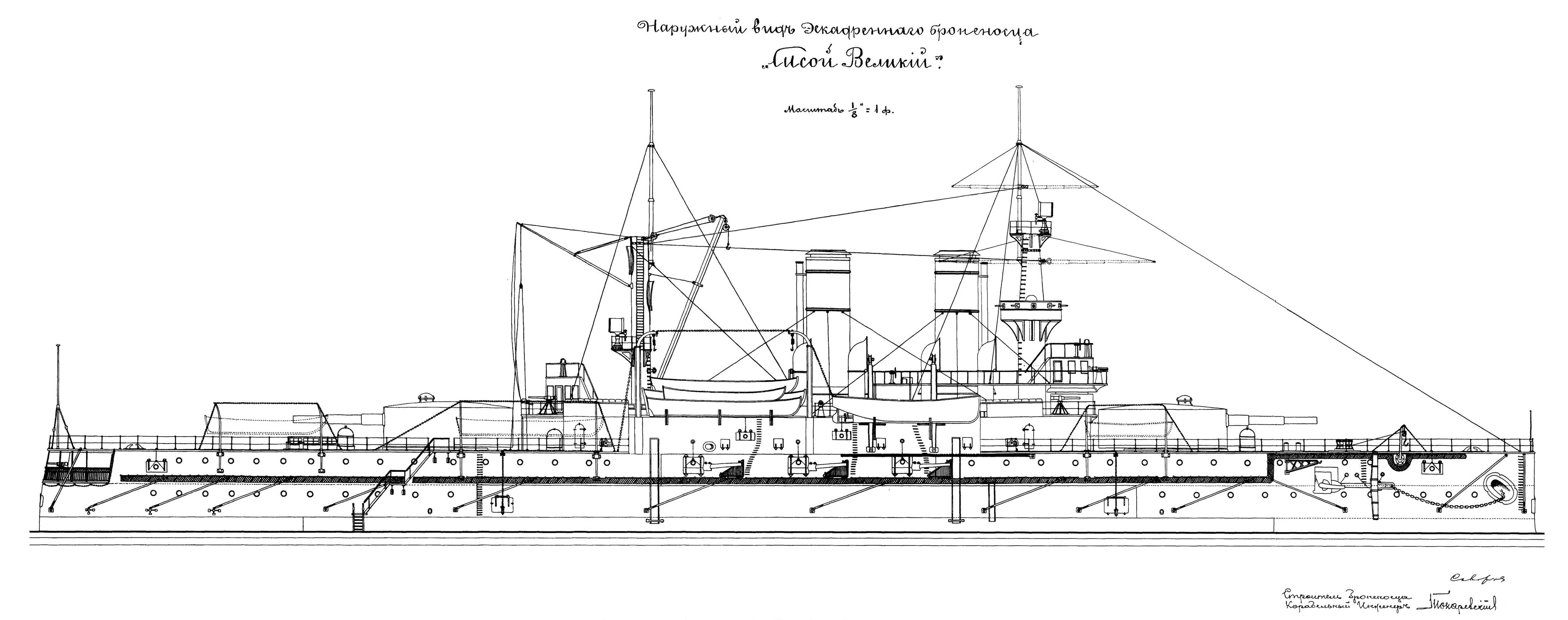 Post-1893 drafts of Russian battleship Sisoy Veliky with main guns in turrets.